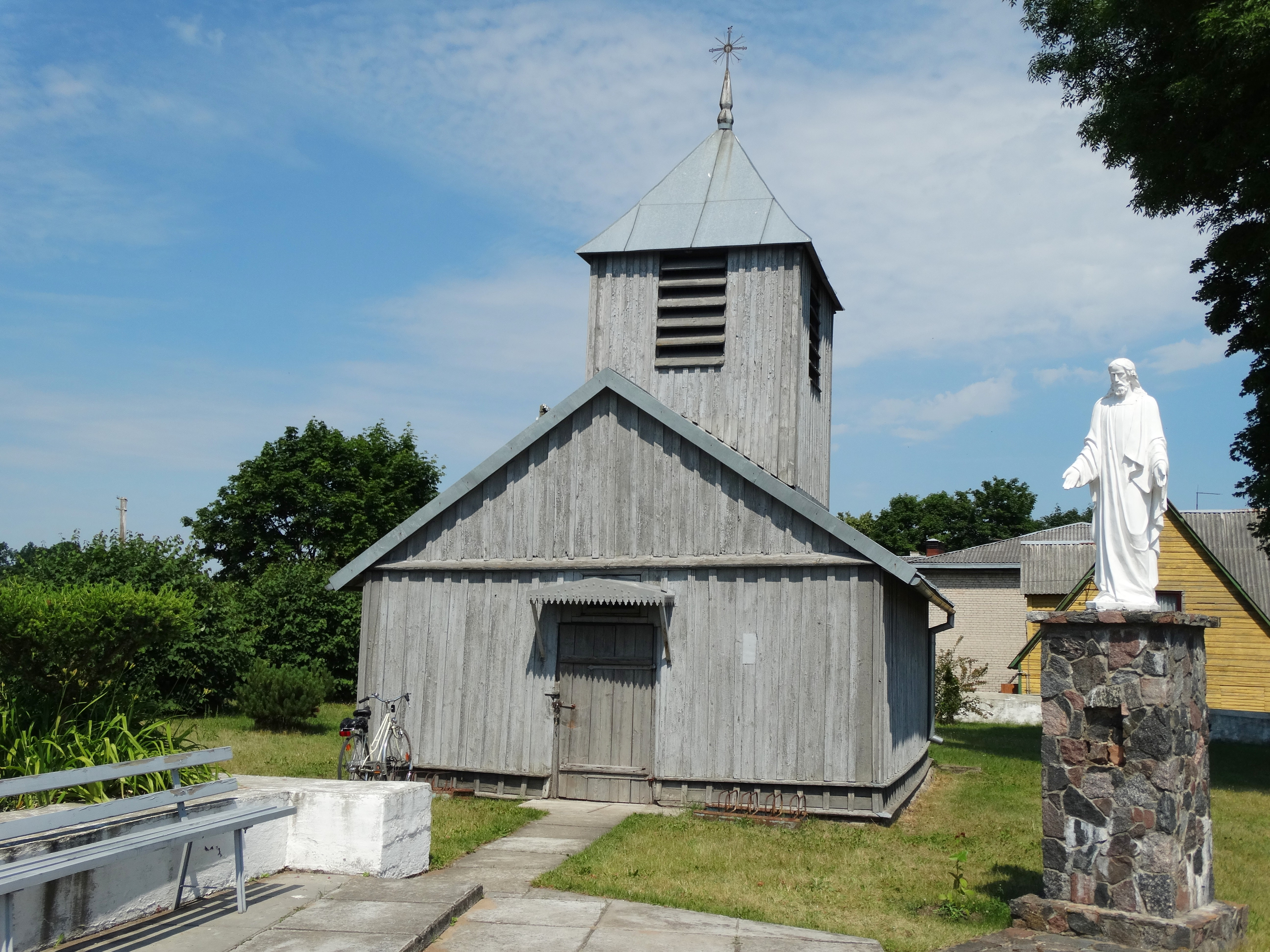 St. Mary Magdalene Church, belfry, Užventis, Kelmė district, Lithuania